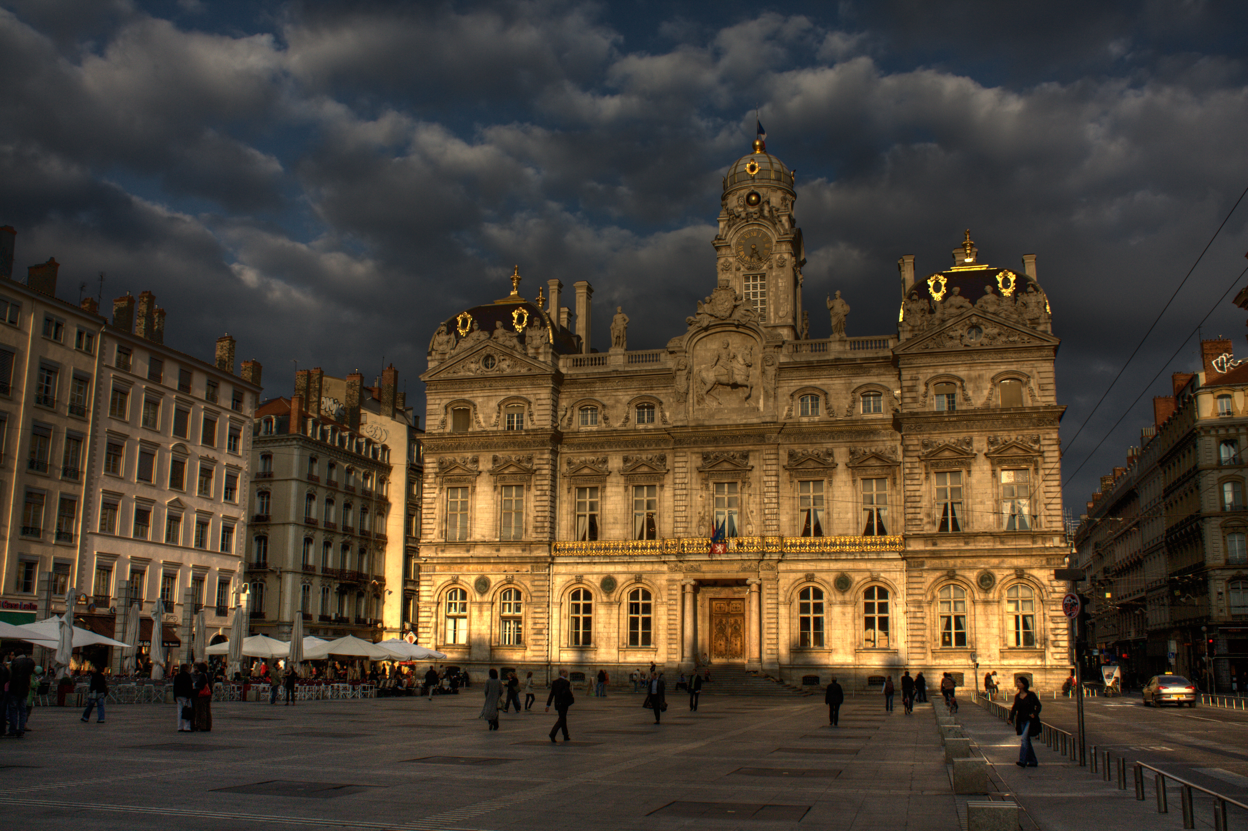 Town hall of Lyon, France, and place des Terreaux.